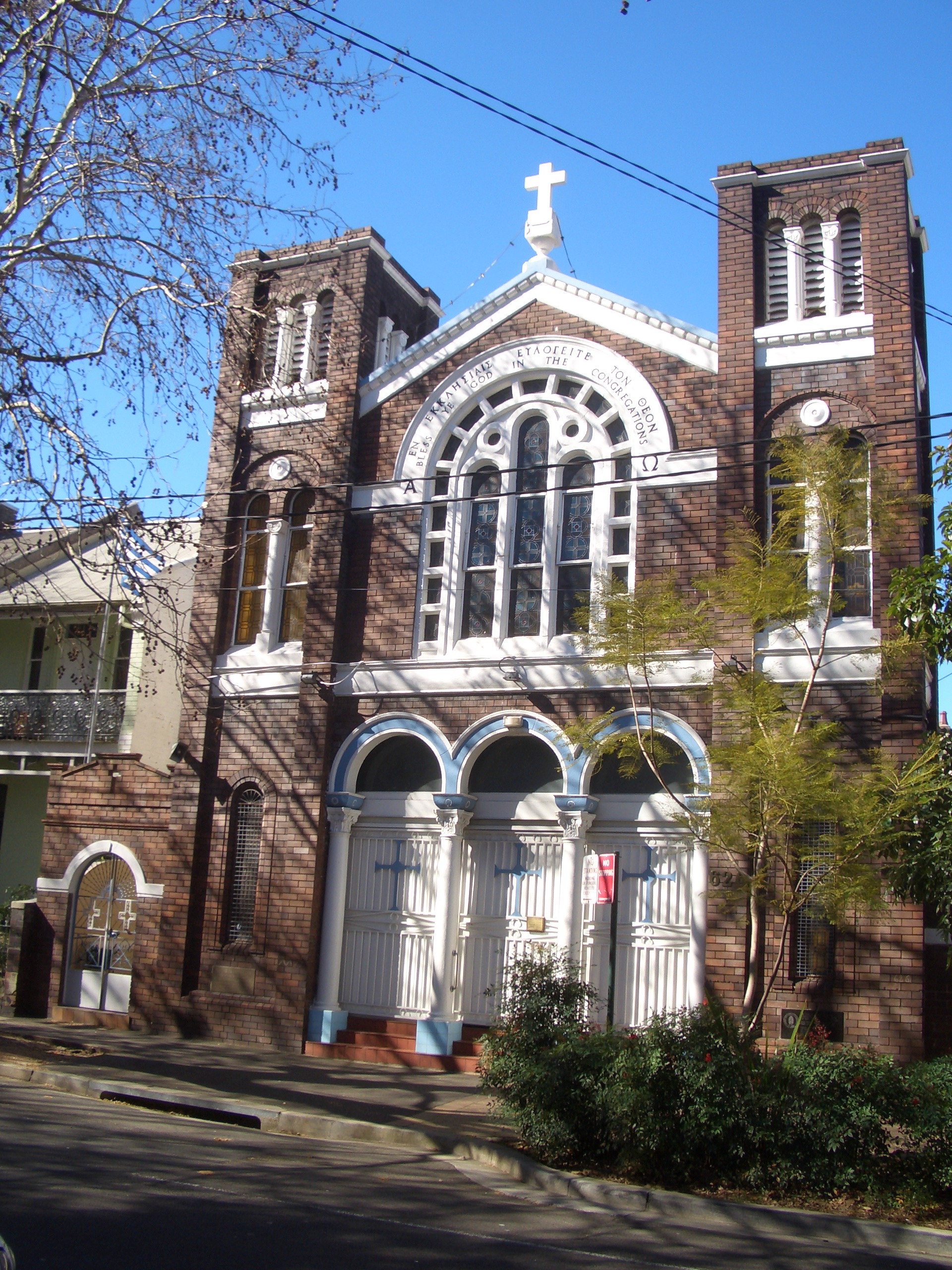 Holy Trinity Greek Orthodox Church, Bourke Street, Surry Hills